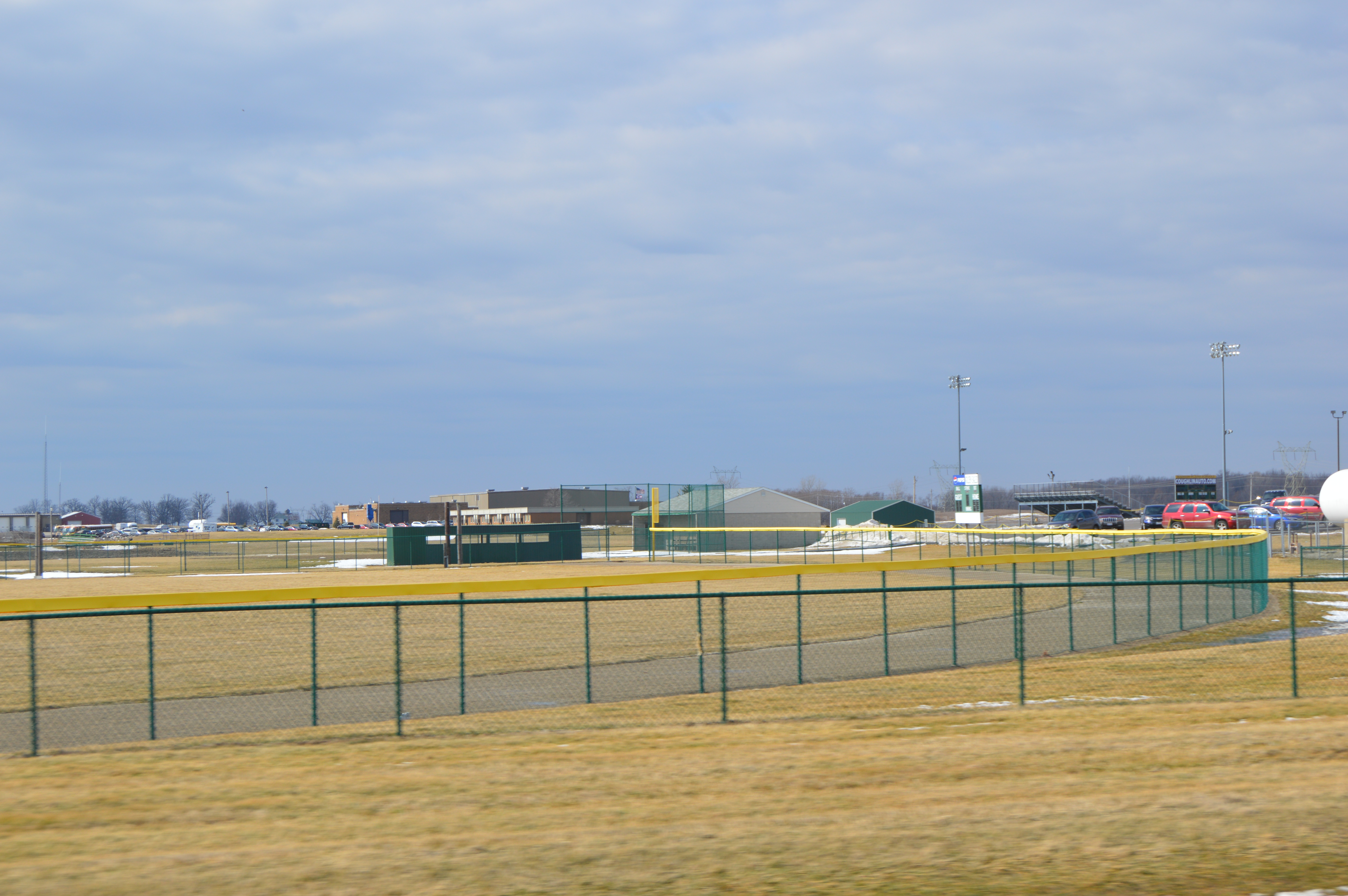 Athletic fields at Madison-Plains High School, located along State Route 38 in far southern Paint Township, Madison County, Ohio, United States.